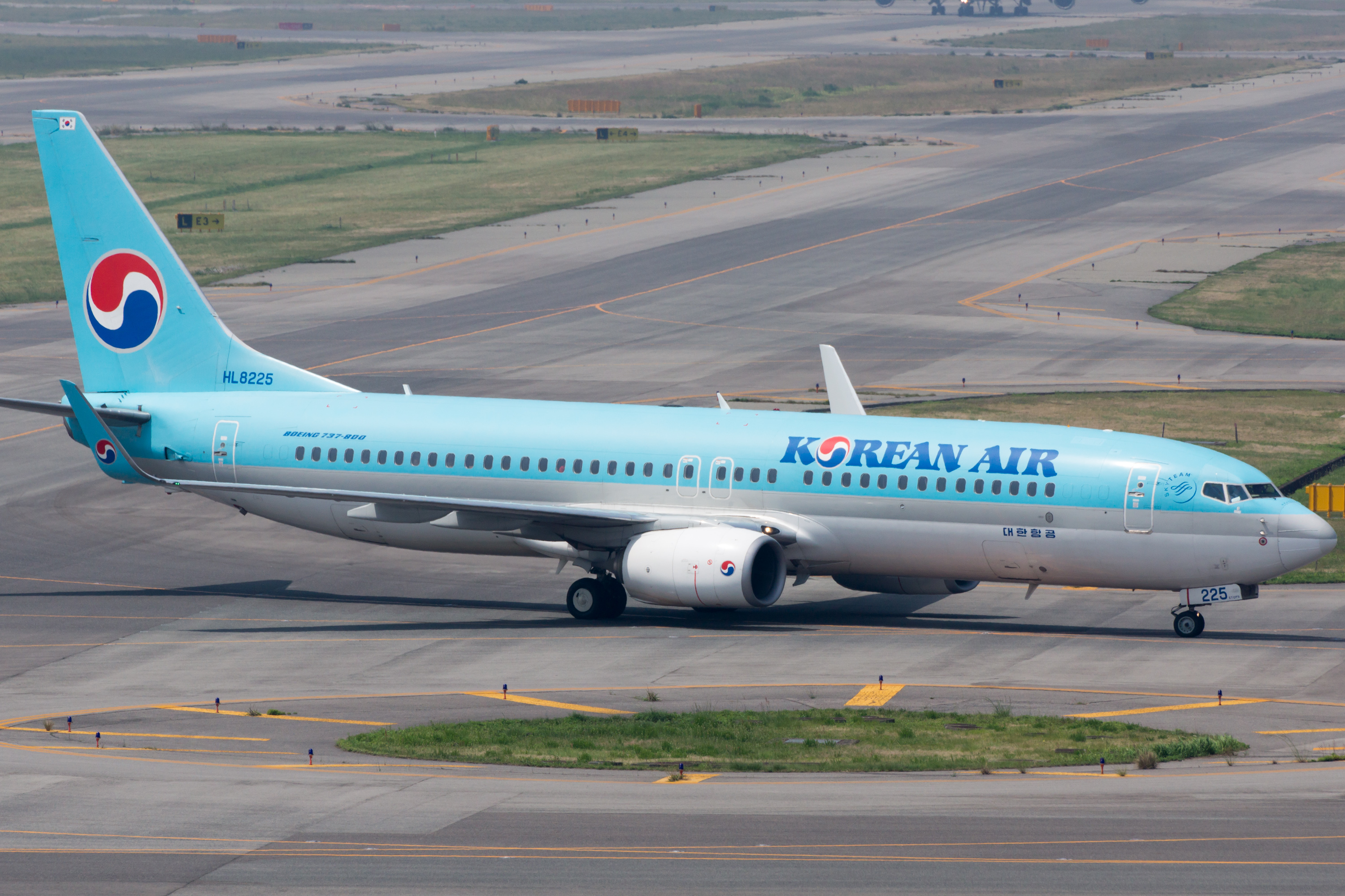 Korean Air/ 대한항공/ 大韓航空 Boeing 737-8Q8 HL8225 KE731, Arrived from Busan Osaka Kansai Int'l Airport